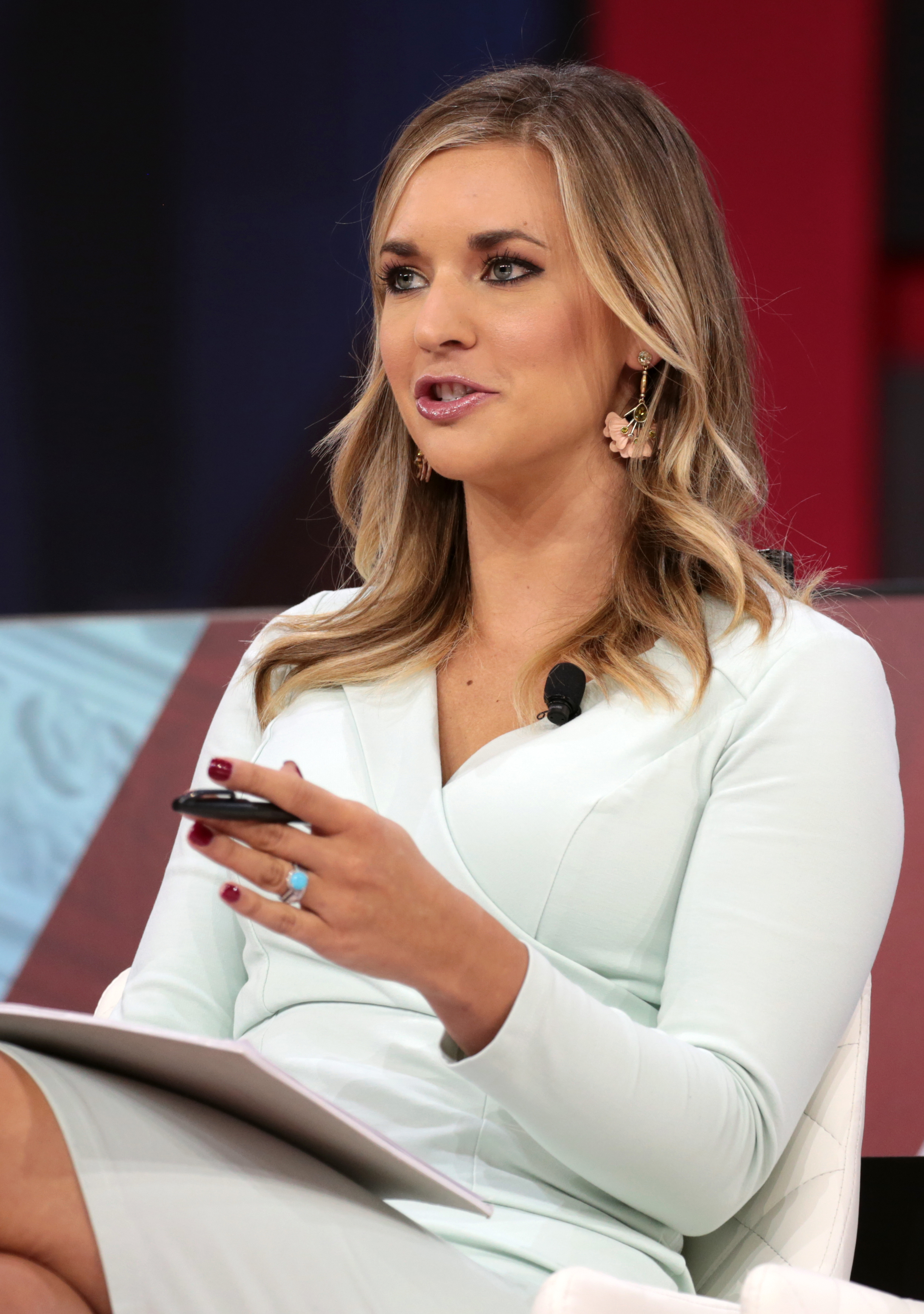 Katie Pavlich speaking at the 2018 CPAC in National Harbor, Maryland.